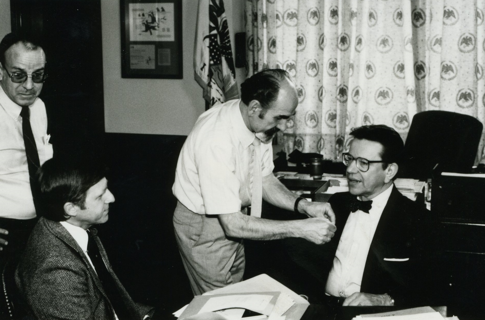 Richard A. Jensen with then-U.S. Rep. Paul Simon